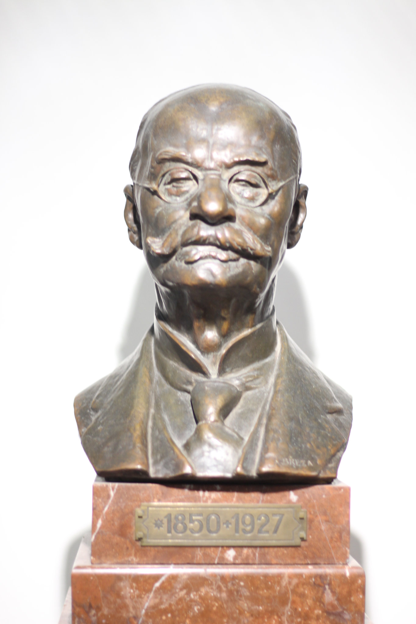 This image has been originally created as the illustration for trabaja con ácidos entry in crosswords dictionary . It has been released under CC-BY-3.0 license.